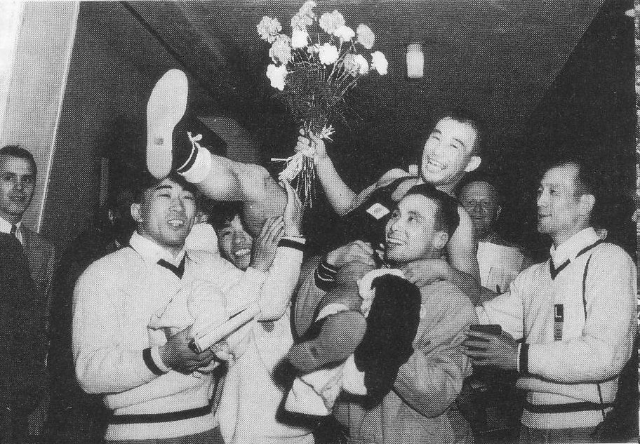 Shohachi Ishii (Japanese wrestler and Olympic champion in Freestyle wrestling , 1952 Summer Olympics in Helsinki).